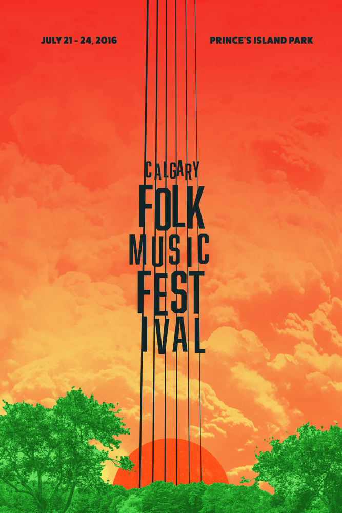 poster for the 2016 Calgary Folk Music Festival